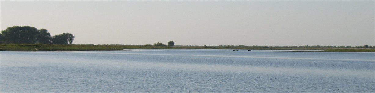 View to Pripyat river, Turov, Gomel province, Belarus.